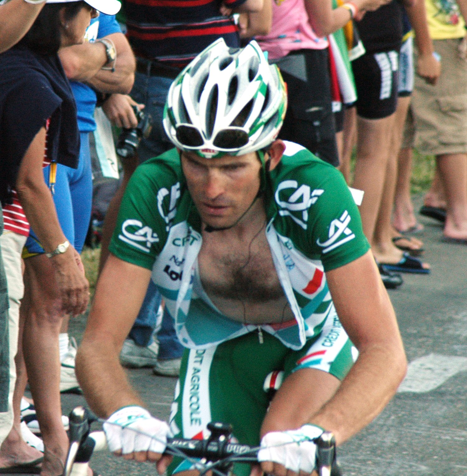 Patrice Halgand at stage 7 of the Tour de France 2007 on the Col de la Colombière.